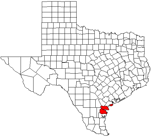 Map of Texas highlighting the Corpus Christi Metropolitan Statistical Area; created with the GIMP. Made by User:Acntx.